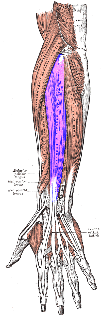 Posterior surface of the forearm. Superficial muscles. Extensor digitorum muscle labeled in purple.